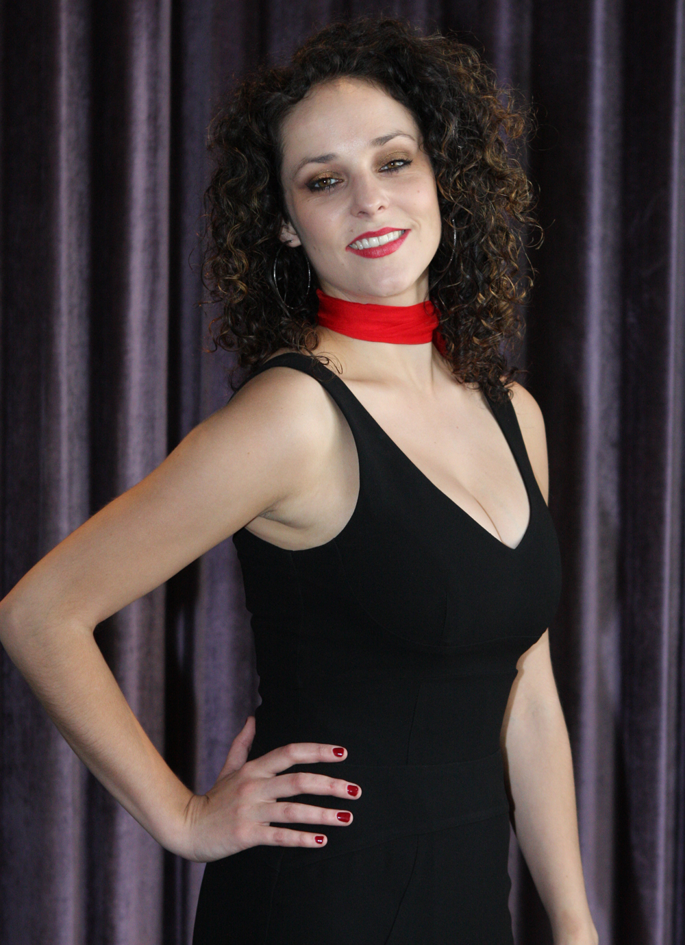 GREASE: The No.1 Party Musical media event at Hard Rock Cafe, Darling Harbour, Sydney, Australia - 24th March 2013